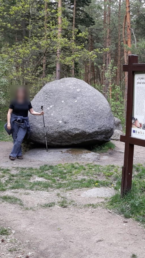 The Jesenický viklan (Viklan u Jesenice or also Viklan u Jesenice u Rakovníka) located near Jesenice u Rakovníka in Central Bohemia is one of the largest viklans in the Czech Republic with its estimated weight of six tons. Viklan is located on the Jesenicko nature trail between Velký rybník and Krtský rybník.